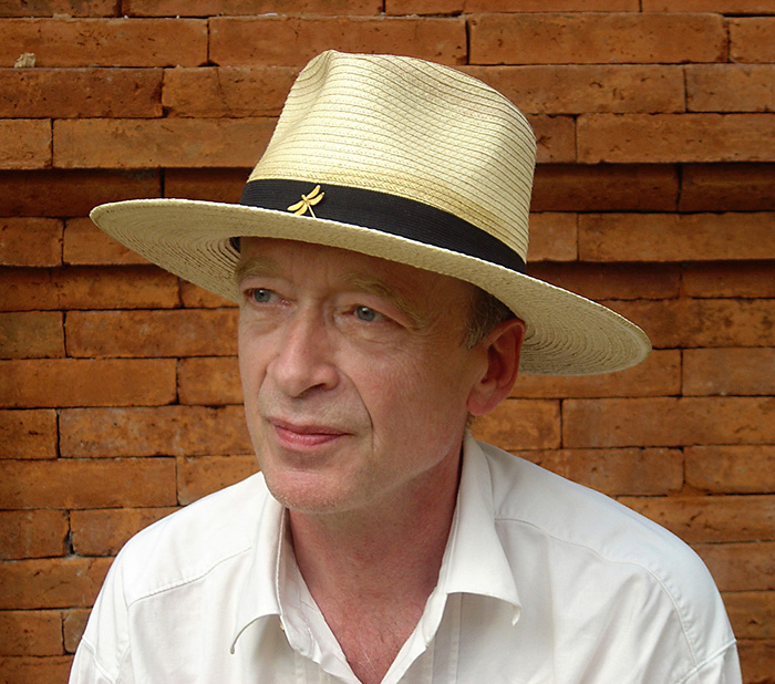 Portrait of Michael Stalherm, 2007